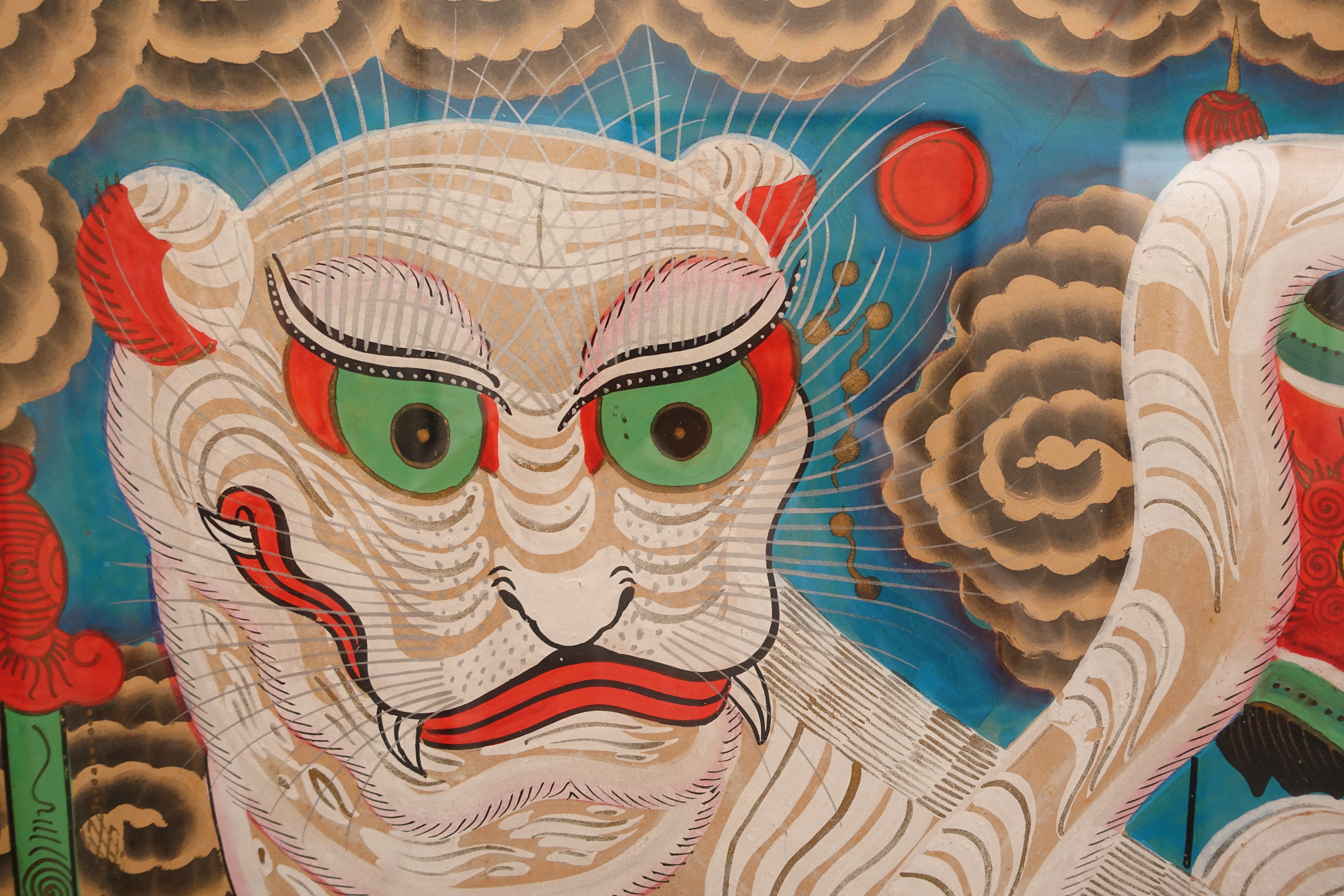 Exhibit in the Vietnam National Museum of Fine Arts - Hanoi, Vietnam. This artwork is old enough so that it is in the public domain.